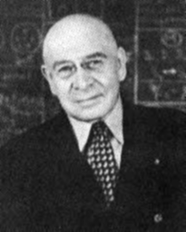 Alfred Korzybski, Polish philosopher and scientist.